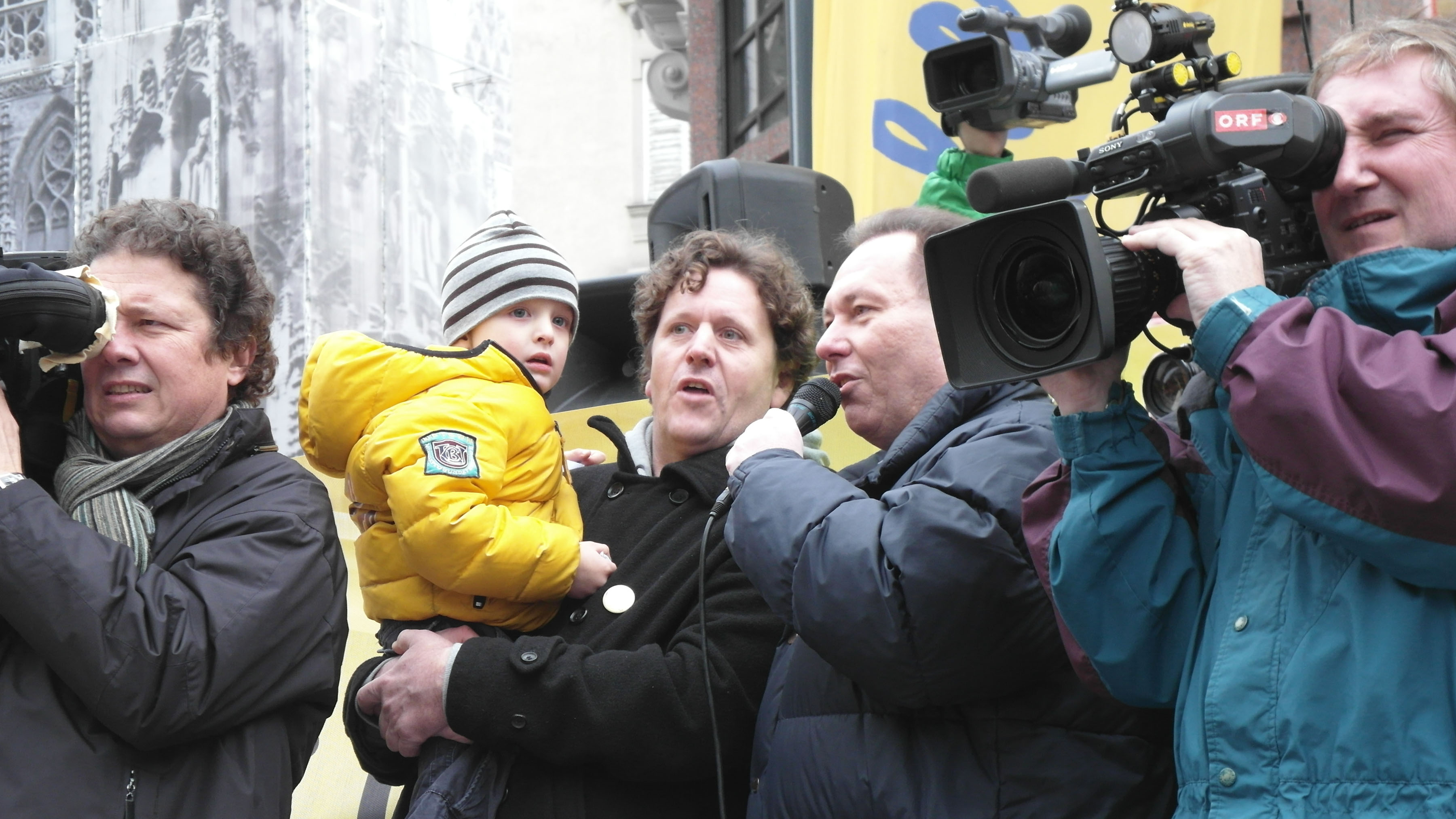 Austria, Vienna, Stephansplatz This shot was taken on "United Nations Children's Rights Day", on 'Stephansplatz', in Vienna, Austria. Besides flanking camera men, the image shows Mr. Franz Prokop (with son) and Gernot Rammer (on mike). It seems to be the first ever organized 'Smart Mob' on such occasion, although it was somewhat misnamed 'flashmob'. This 'smart mob' happened for 60 seconds, beginning at 14:22 local time (13:22_Z). Admittedly, camera's time setting seems to be wrong ~+1min.